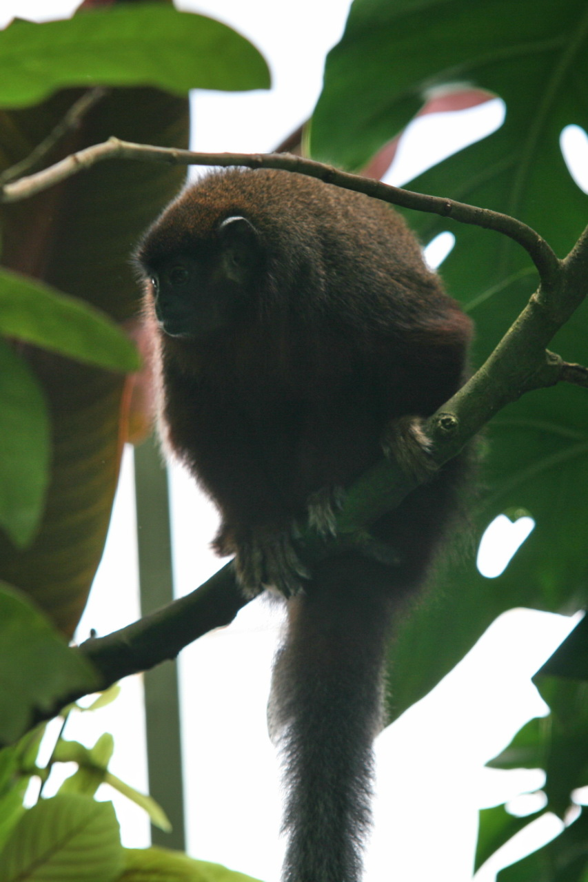 Dusky Titi Monkey (Callicebus moloch)